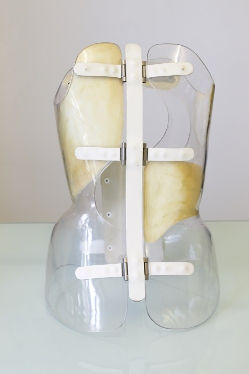 Brace Sforzesco